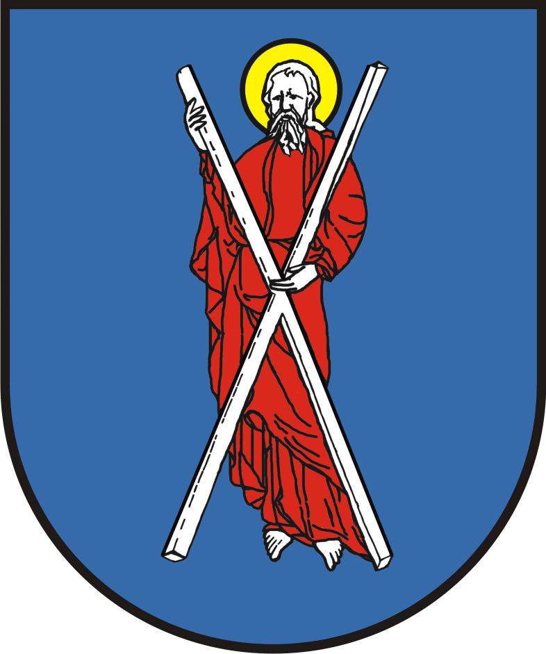 Gmina Lubicz coat of arms